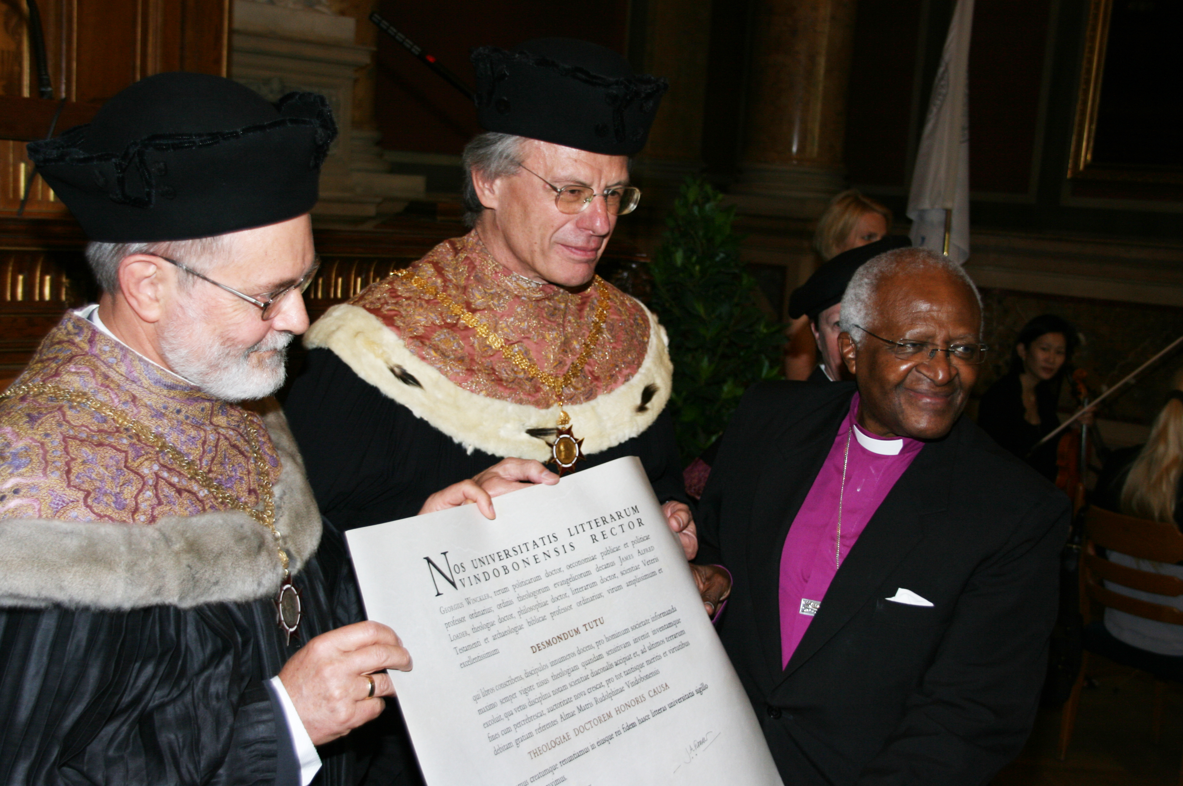 On 12 June 2009 the University of Vienna conferred the degree "Doctor Theologiae honoris causa" on Desmond Tutu. The Faculty of Protestant Theology and Senate based the decision on Tutu's outstanding achievement in developing and establishing what can be called "ubuntu-theology", his manifestation of what became known as "public theology". By integrating the principles of the South African ubuntu philosphy with his theological thinking he made a major contribution beyond classical Liberation Theology.